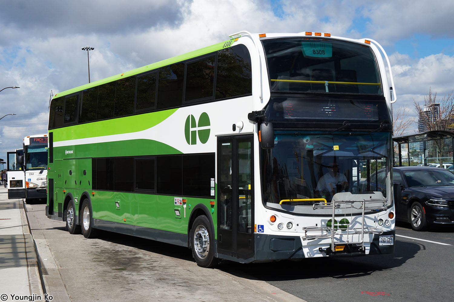 GO Transit 2016 Alexander Dennis Enviro500 "super-lo" #8308 has been seen on Square one terminal.